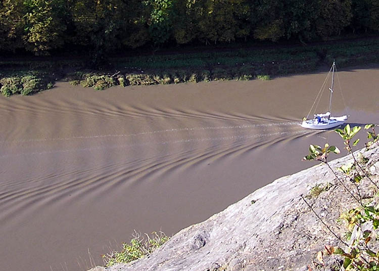 The wake of a slow moving boat in the Avon Gorge, Bristol, England. Taken by Adrian Pingstone, from the Sea Walls, in October 2004 and released to the public domain.